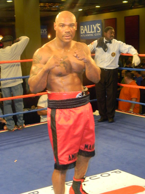 Sports writer and photographer Robert Brizel captures heavyweight contender Amir Mansour in the ring after his win at Bally's Atlantic City, Saturday, April 3, 2011.